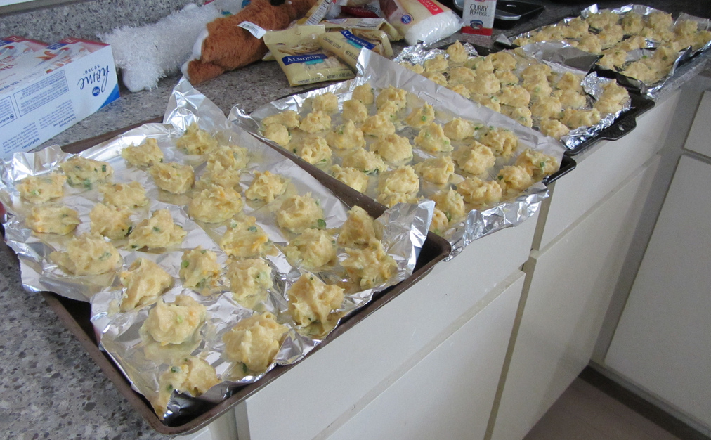 Crab puffs on a tray before being put into a freezer